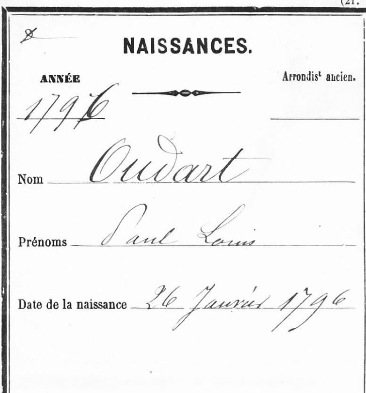 Birth entry Paul-Louis Oudart 26 Janvier 1796 in Paris